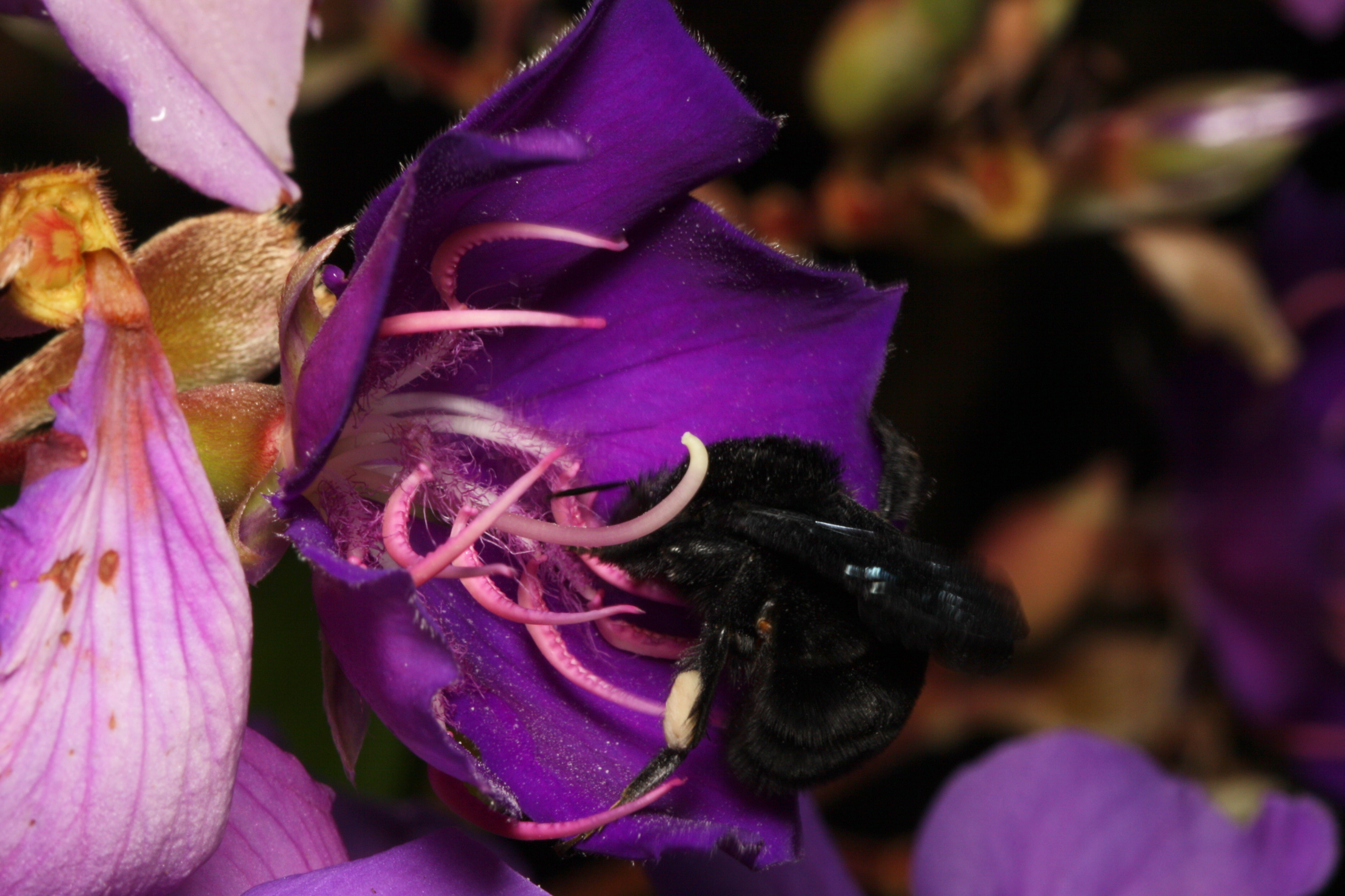 Bombus morio bumblebee visiting Tibouchina granulosa flower. Photo taken at Ubatuba, SP, Brasil